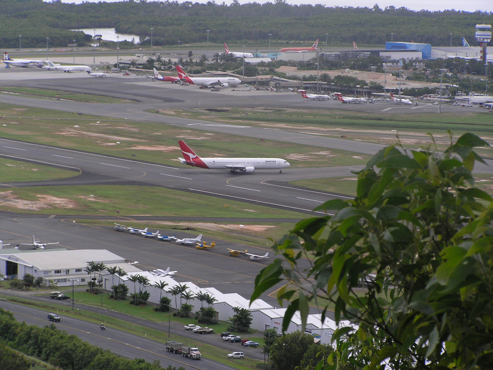 Cairns Airport looking north-east from a lookout on Mt. Whitfield. The Captain Cook Highway and General aviation area can be seen in foreground, with domestic and international terminals on the other side of the runway. Beyond the main terminal area is the Barron River, a mangrove swamp, and Trinity Bay in the Coral Sea.